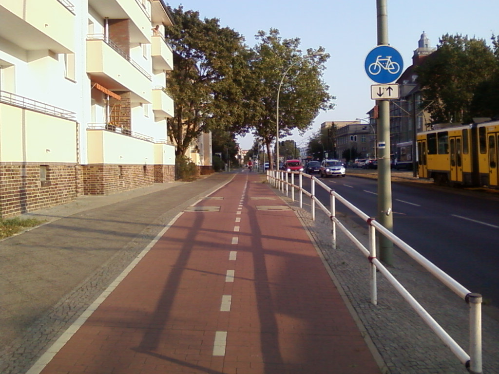 Two-lane cycleway for both directions, Treskowallee Berlin-Karlshorst, Germany (On Google Maps)